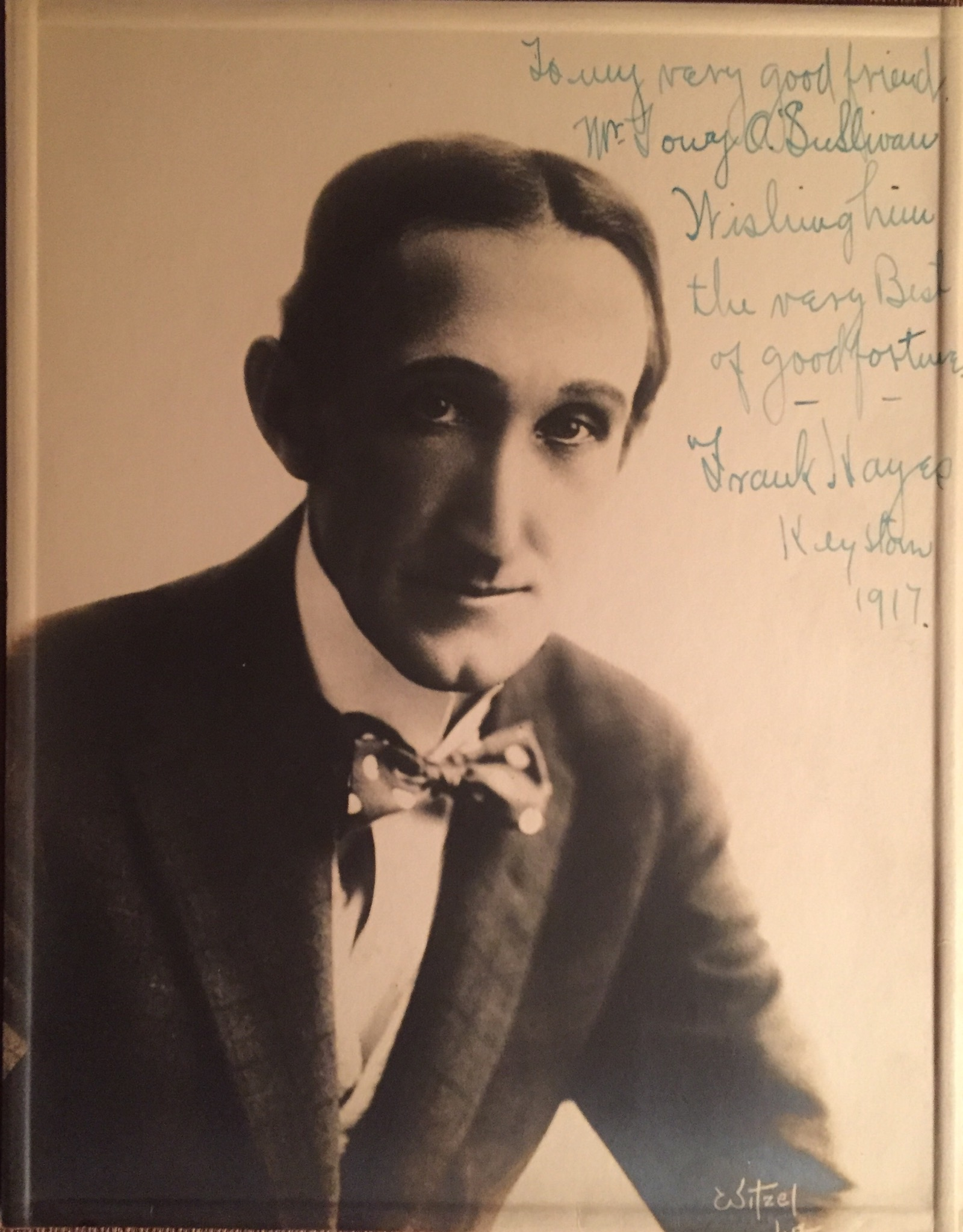 Frank Hayes Keystone Comedies 1917 Publicity Photo Witzel Photography Studio